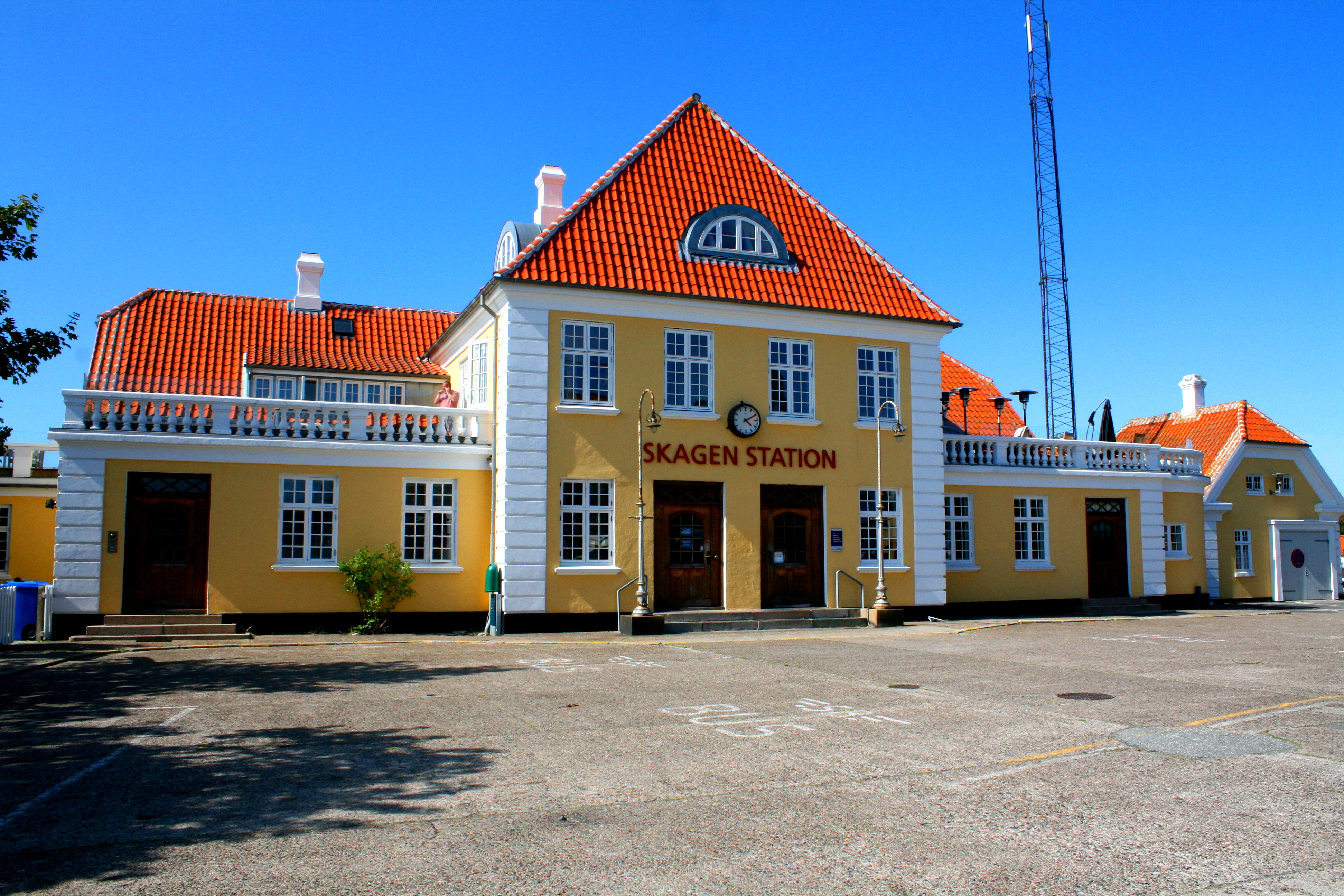 Railway-Station in Skagen, Denmark